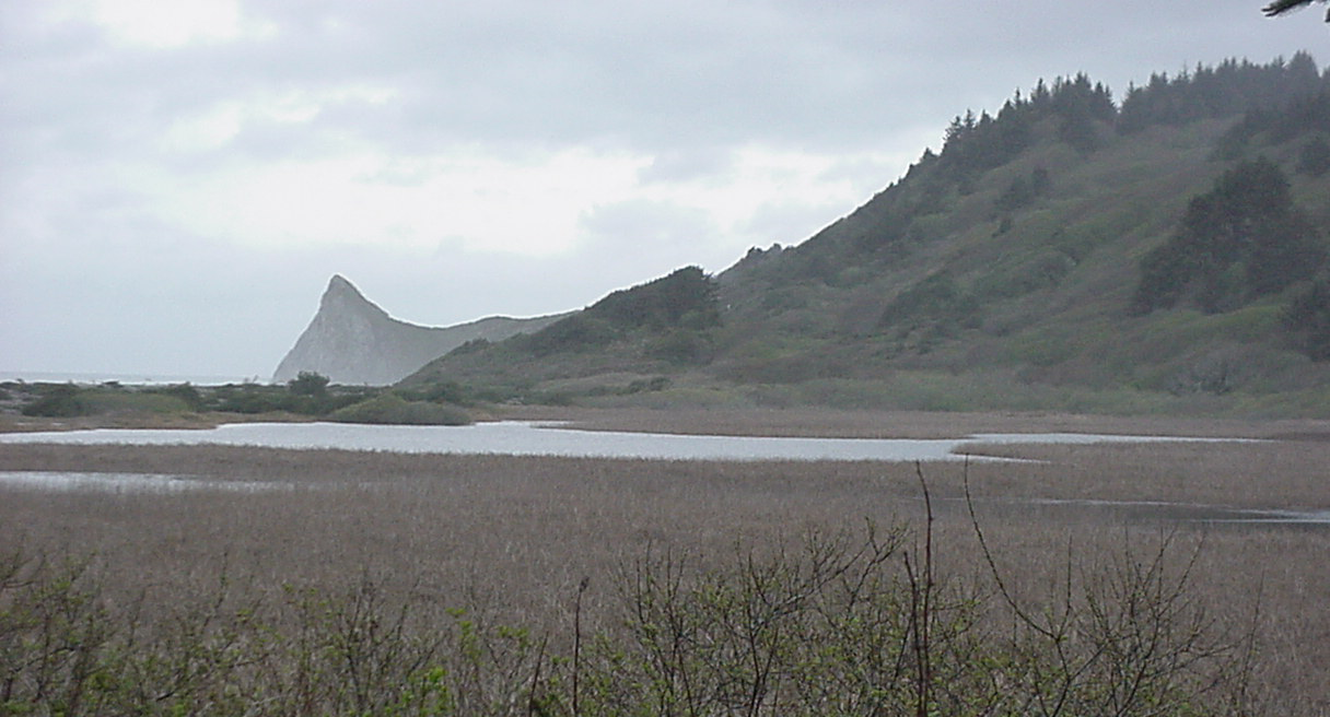 Dry Lagoon in Humboldt Lagoons State Park, Humboldt County, California, USA, as viewed from the access road south of the lagoon.